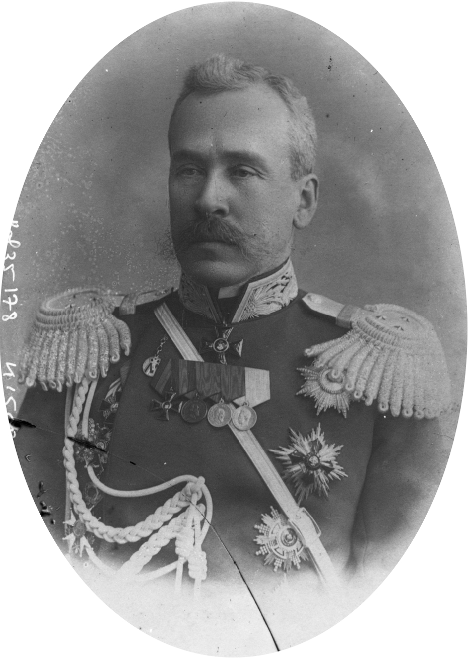 General Yakov Grigorievich Zhilinsky. Chief of the Russian General Staff 1911-1914. Commander od Russian Northwestern front in 1914. Генерал Яков Григорьевич Жилинский. Начальник Генерального штаба в 1911-1914. Командующий Северо-Западным фронтом в 1914.